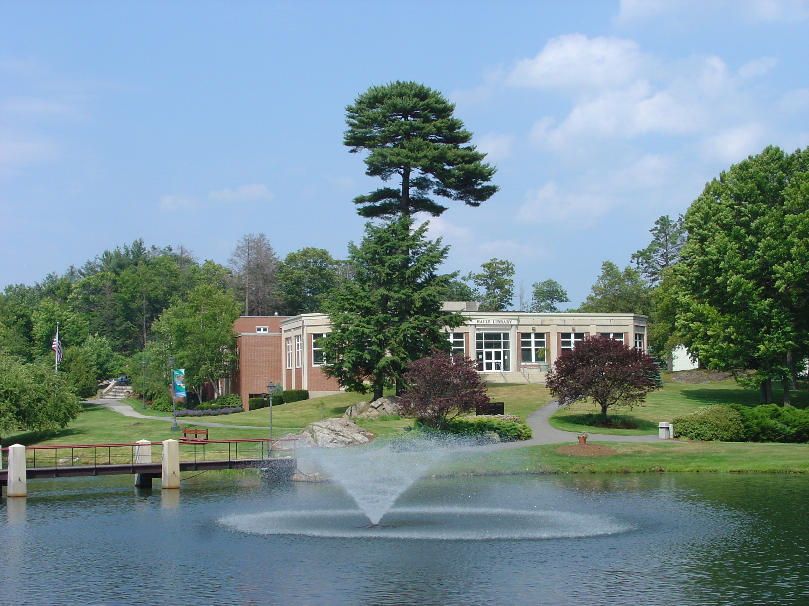 Diane M. Halle Library, Endicott College, Beverly, Massachusetts